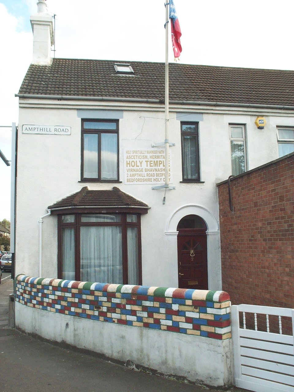 Small Hindu Temple in converted house, 2 Ampthill Road, Bedford, Bedfordshire, England.